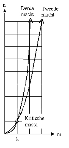 critical mass